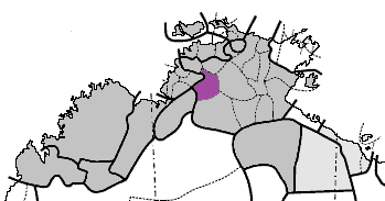 Location of land traditionally associated with Wagiman language.